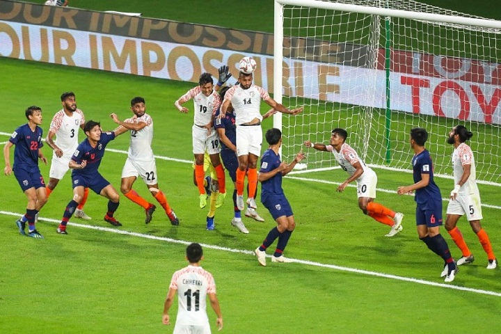 India defending their goalline against Thai attact at the 2019 Asia Cup.